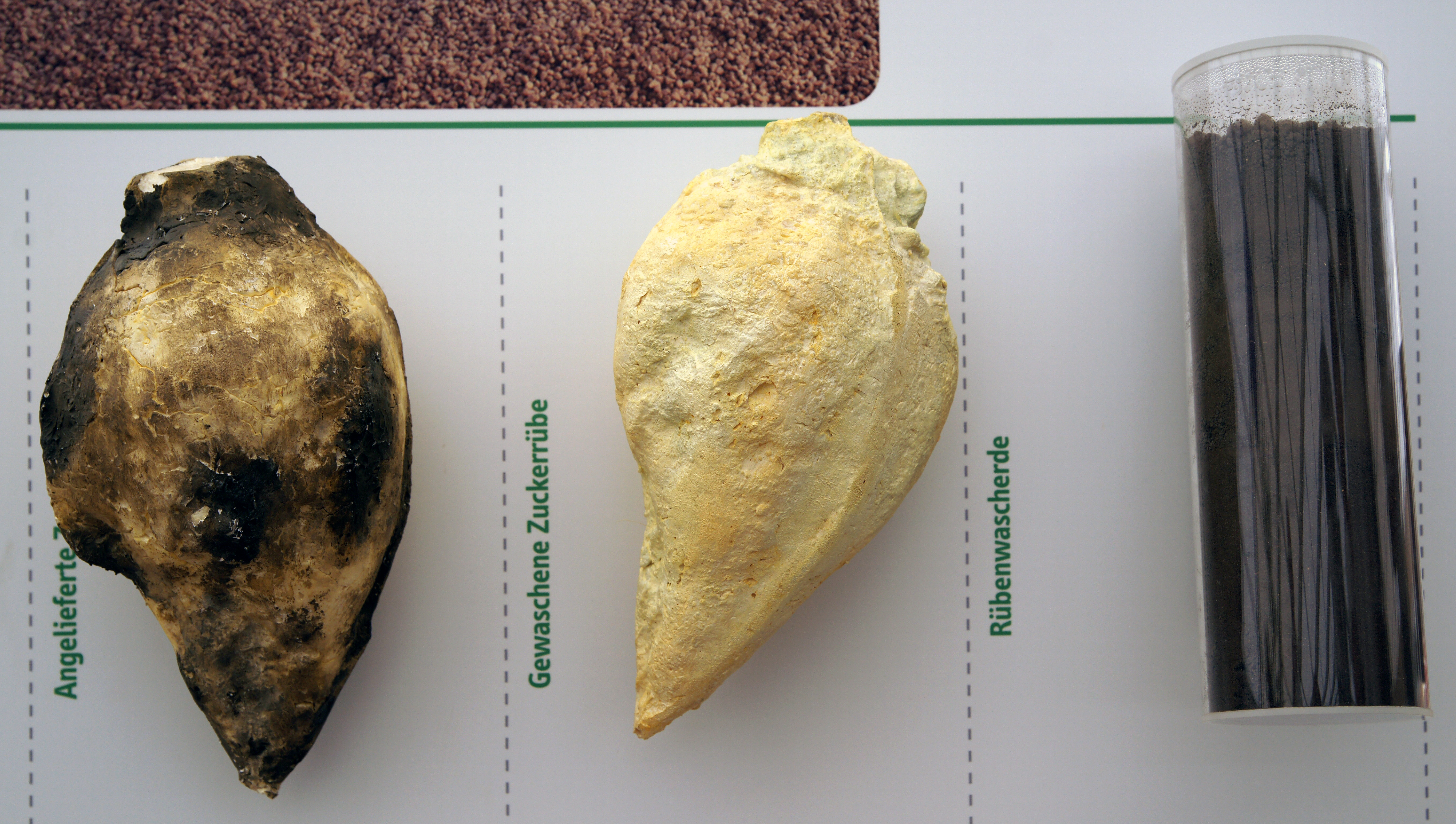 Harvested (left) and cleaned sugar beet (center).